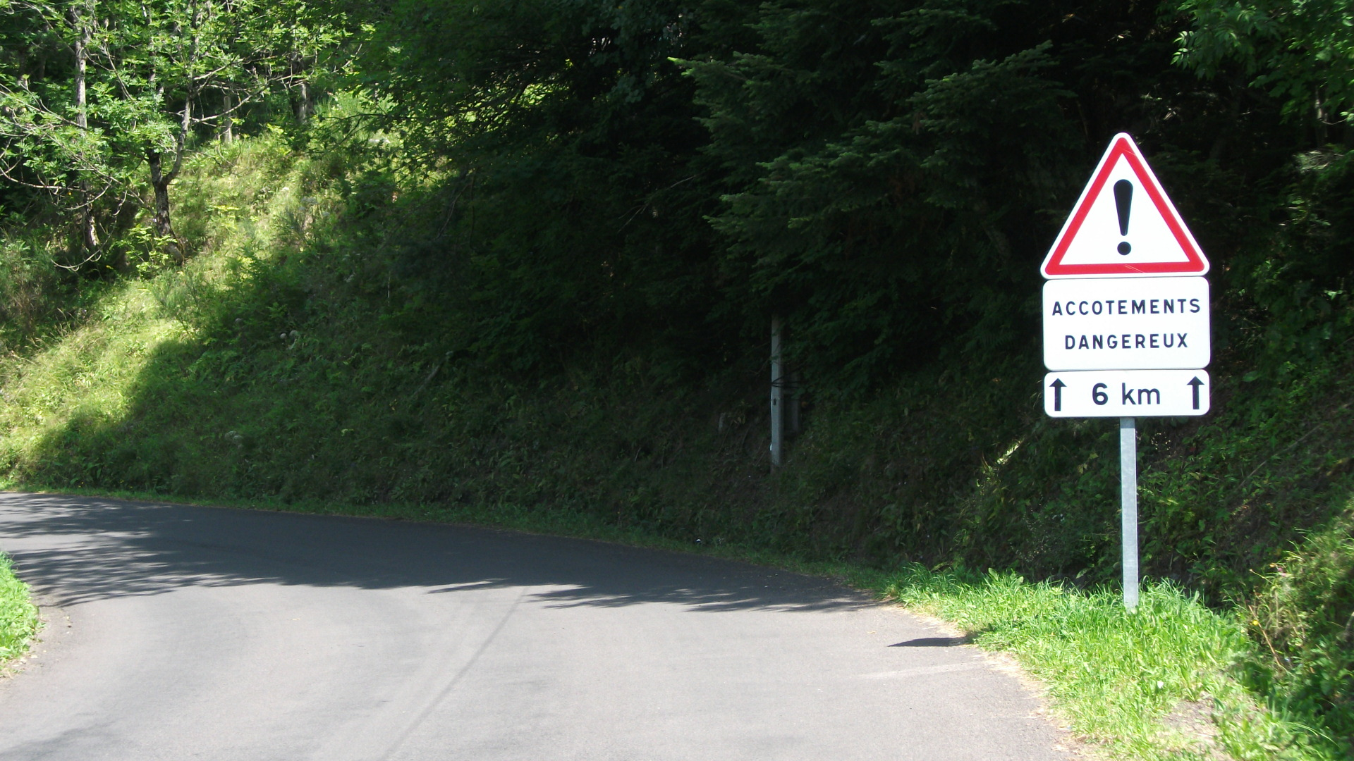 Departmental road 36 in Mont-Dore, towards Besse-et-Saint-Anastaise via Croix-Saint-Robert mountain pass, warning sign